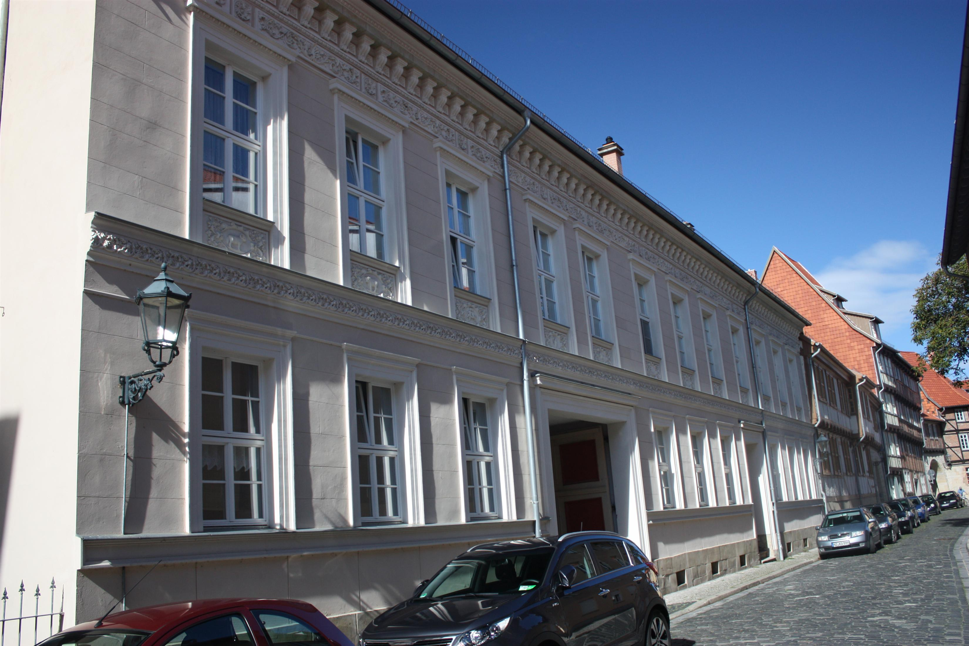 This is a photograph of an architectural monument.It is on the list of cultural monuments of Quedlinburg Quedlinburg Lange Gasse